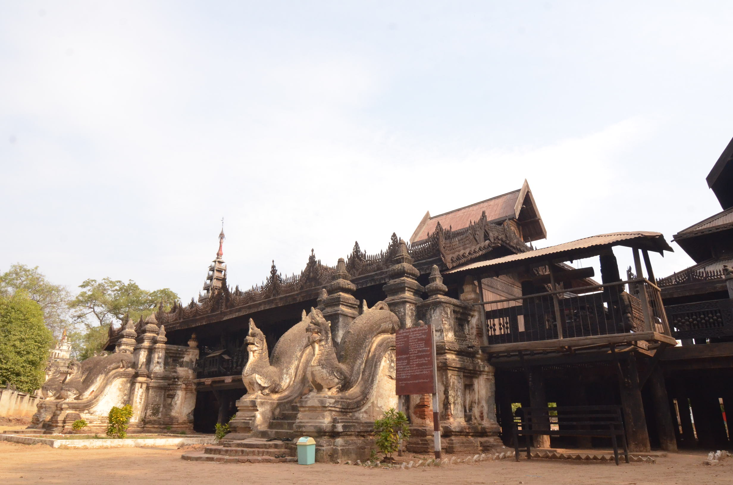 Sale Yokesone Kyaung